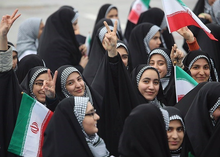 Iranian Girls in the the 22 Bahman 2017 rally in Tehran